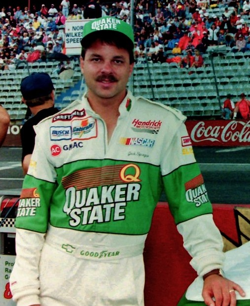 Jack Sprague before the 1996 Lowe's 250 at North Wilkesboro Speedway, September 28, 1996.